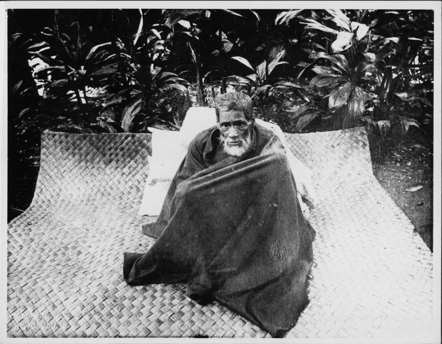 Kahuna Kahiko, Hawaii ca. 1890.